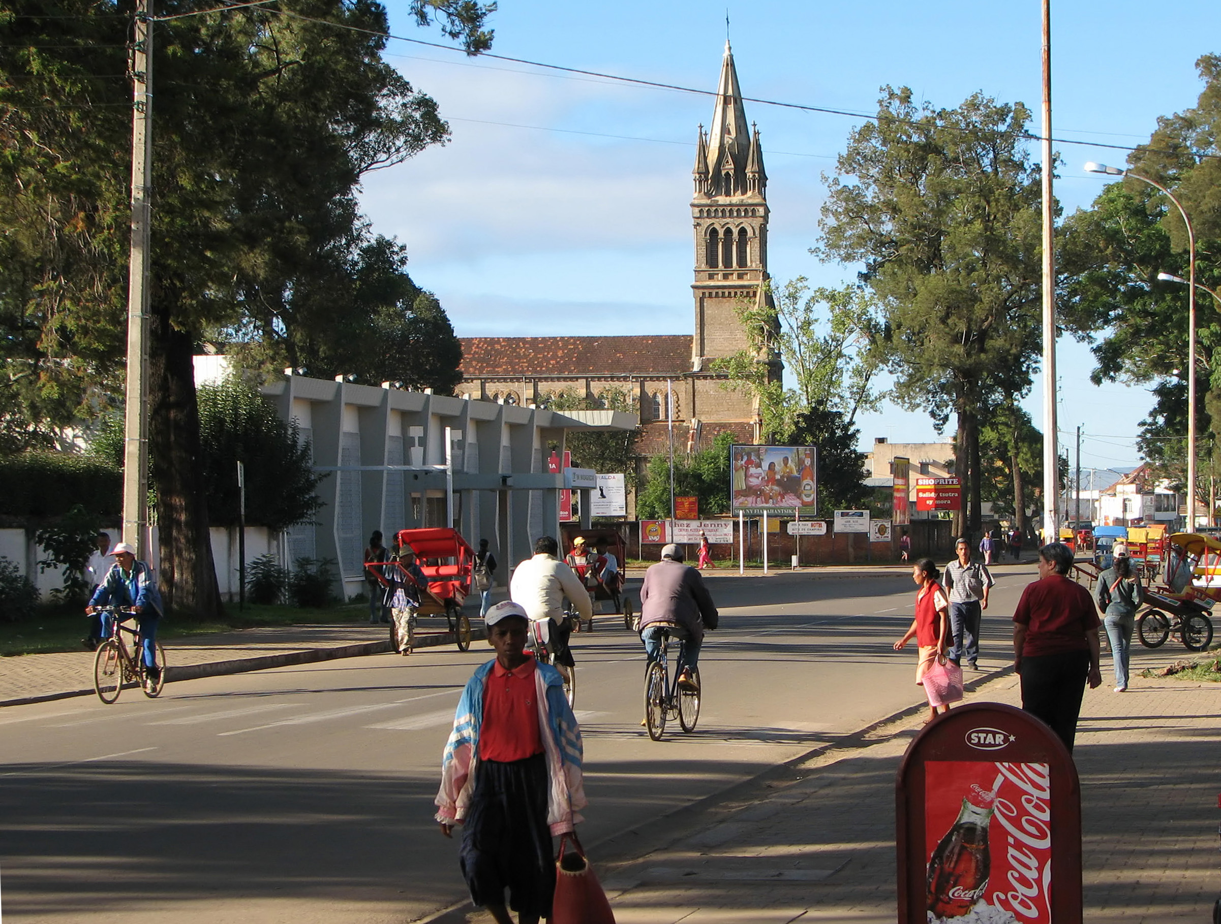 Jean Ralaimongo avenue, Antsirabe, Madagascar